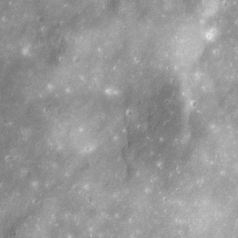 Lara crater, Taurus–Littrow valley, on the moon. Sun elevation 46 deg., spacecraft altitude 112 km.